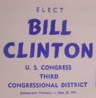 From a campaign card